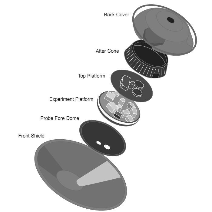 Huygens probe schematic diagram